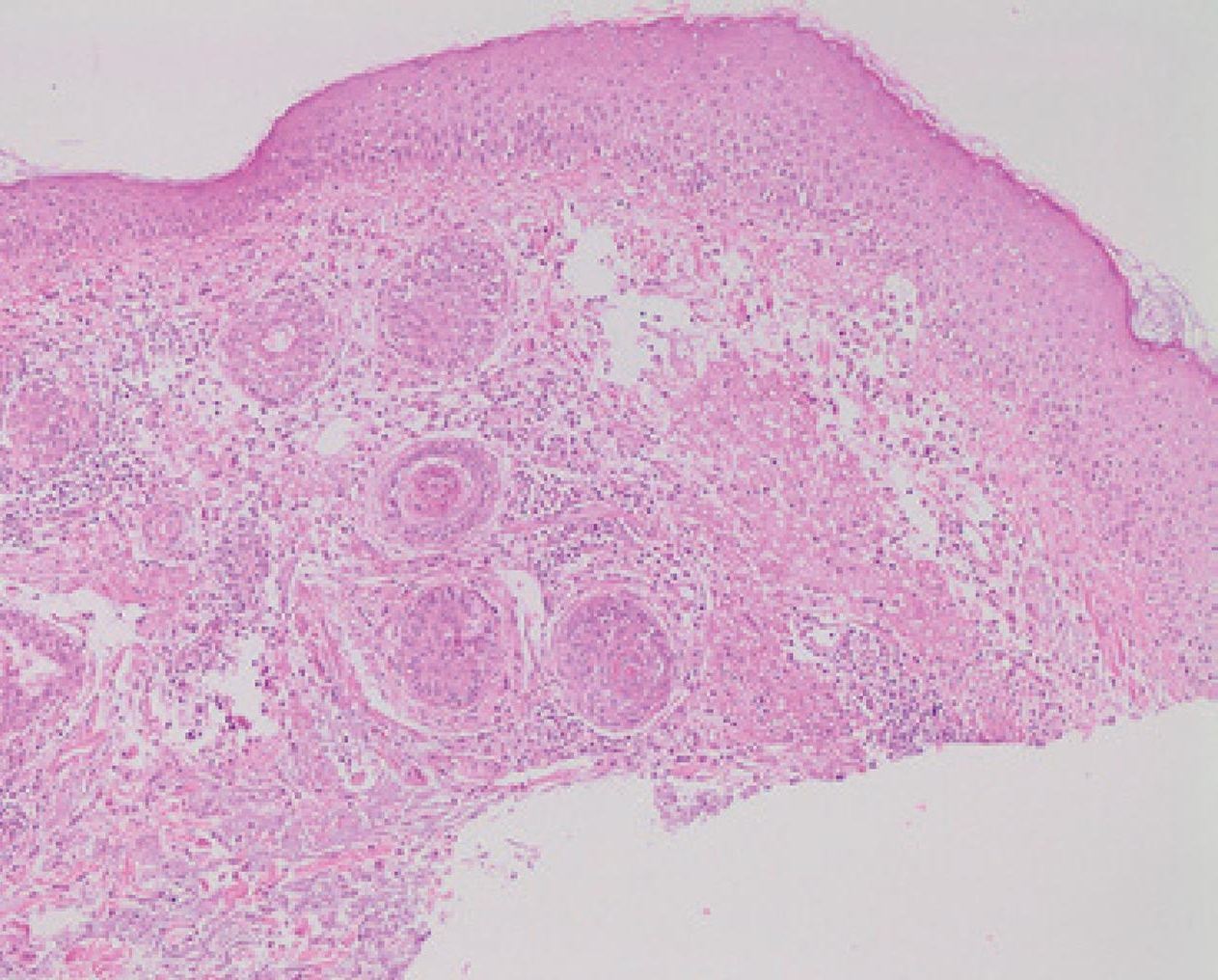 Micrograph of rosacea. A skin biopsy showing rosacea as enlarged, dilated capillaries and venules located in the upper dermis, angulated telangiectasias, perivascular and perifollicular lymphocytic infiltration, and superficial dermal edema. Concurrently, there is also solar elastosis (H&E; 100×).